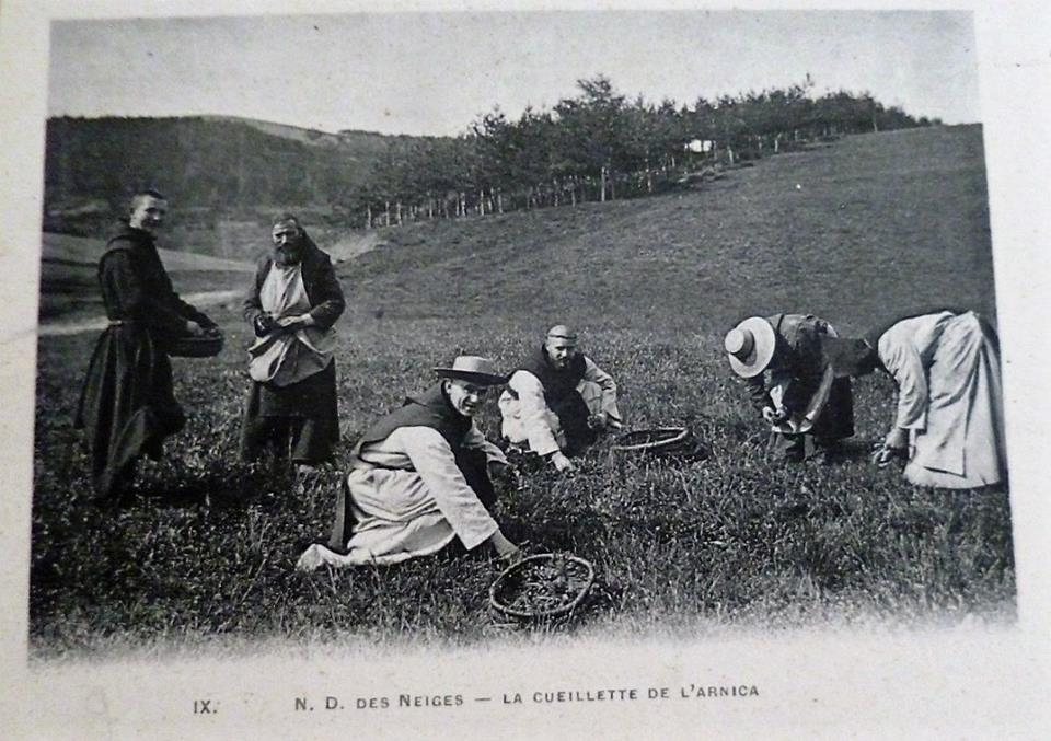 Picking of Arnica by the monks of Notre Dame des Neiges Abbaye (Ardèche, France)